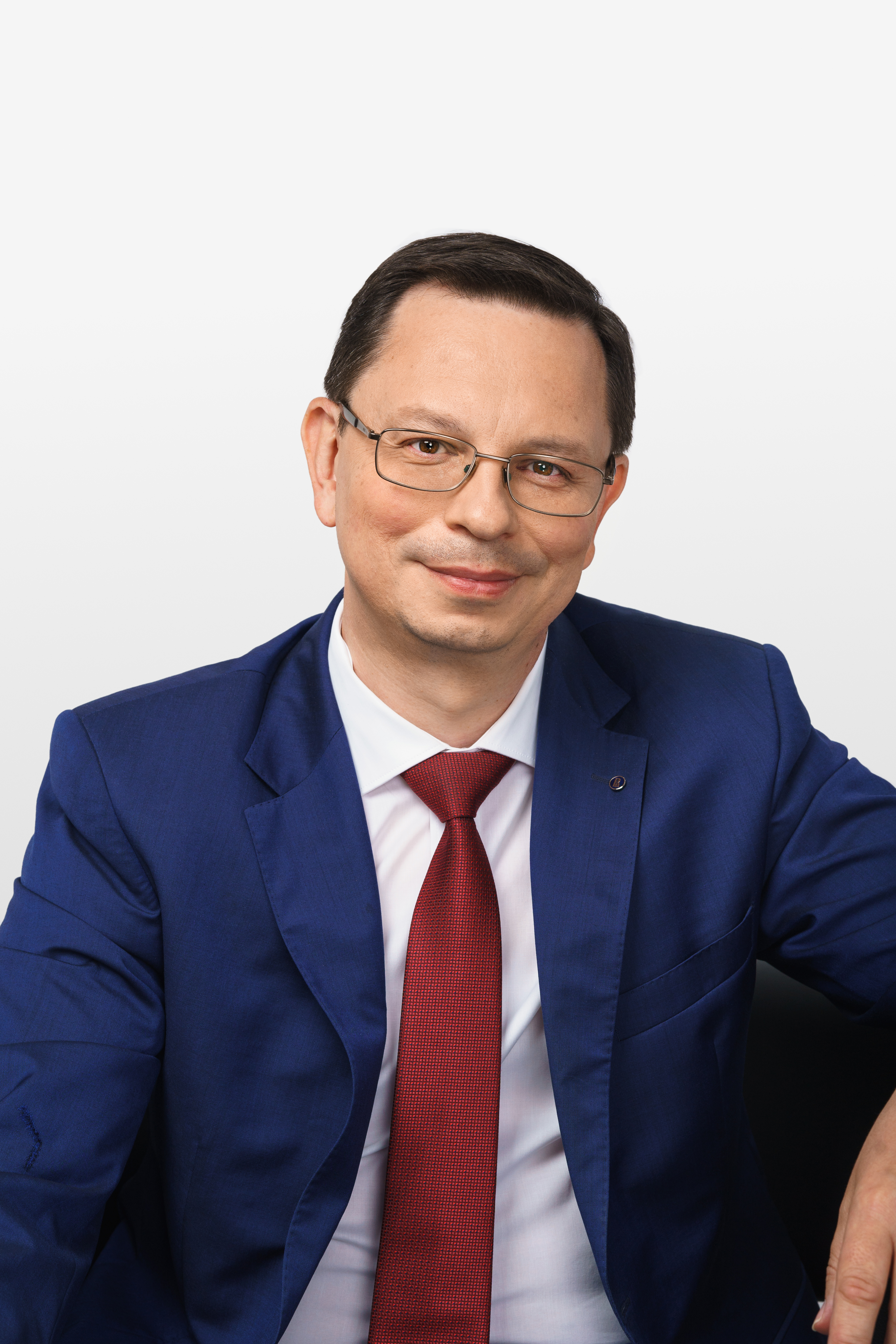 Анисимов Никита Юрьевич